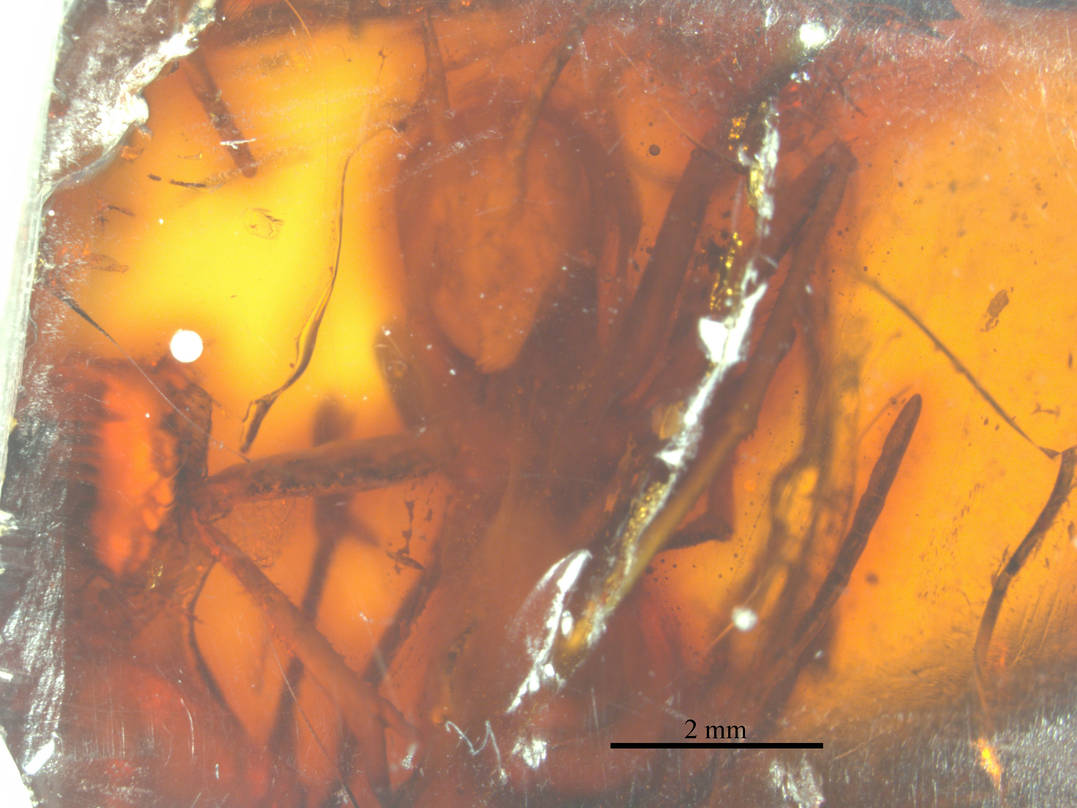 View of a Cataglyphoides constrictus lectotype worker. Middle Eocene; Baltic amber, Samland Peninsula, Kalingrad, Russia Naturhistorisches Museum, Vienna, Austria; specimen NHMW1984-31-137